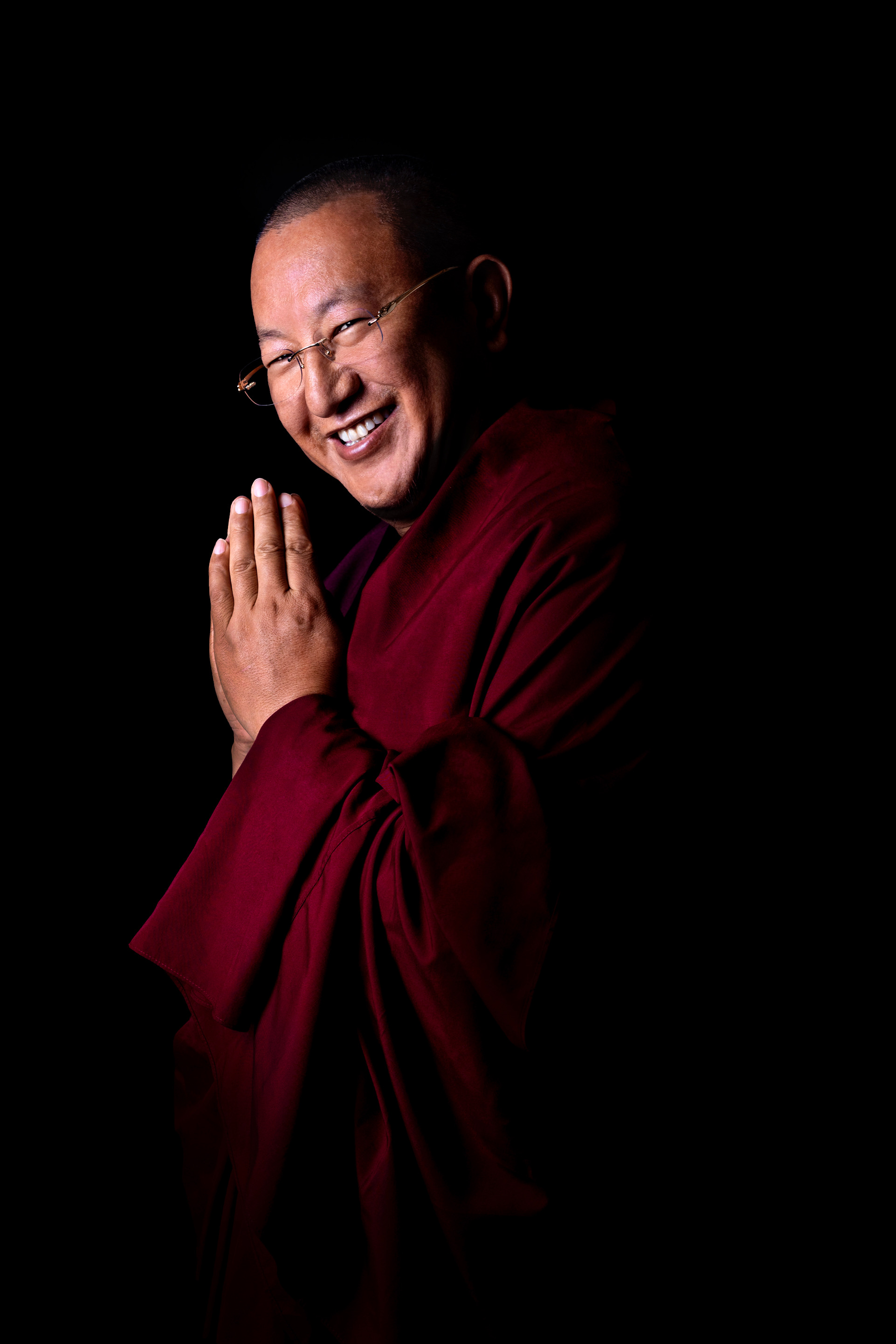 Tenzin Master 2020